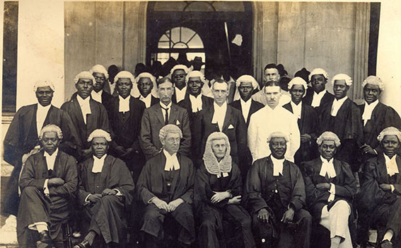 Graduating as a young lawyer